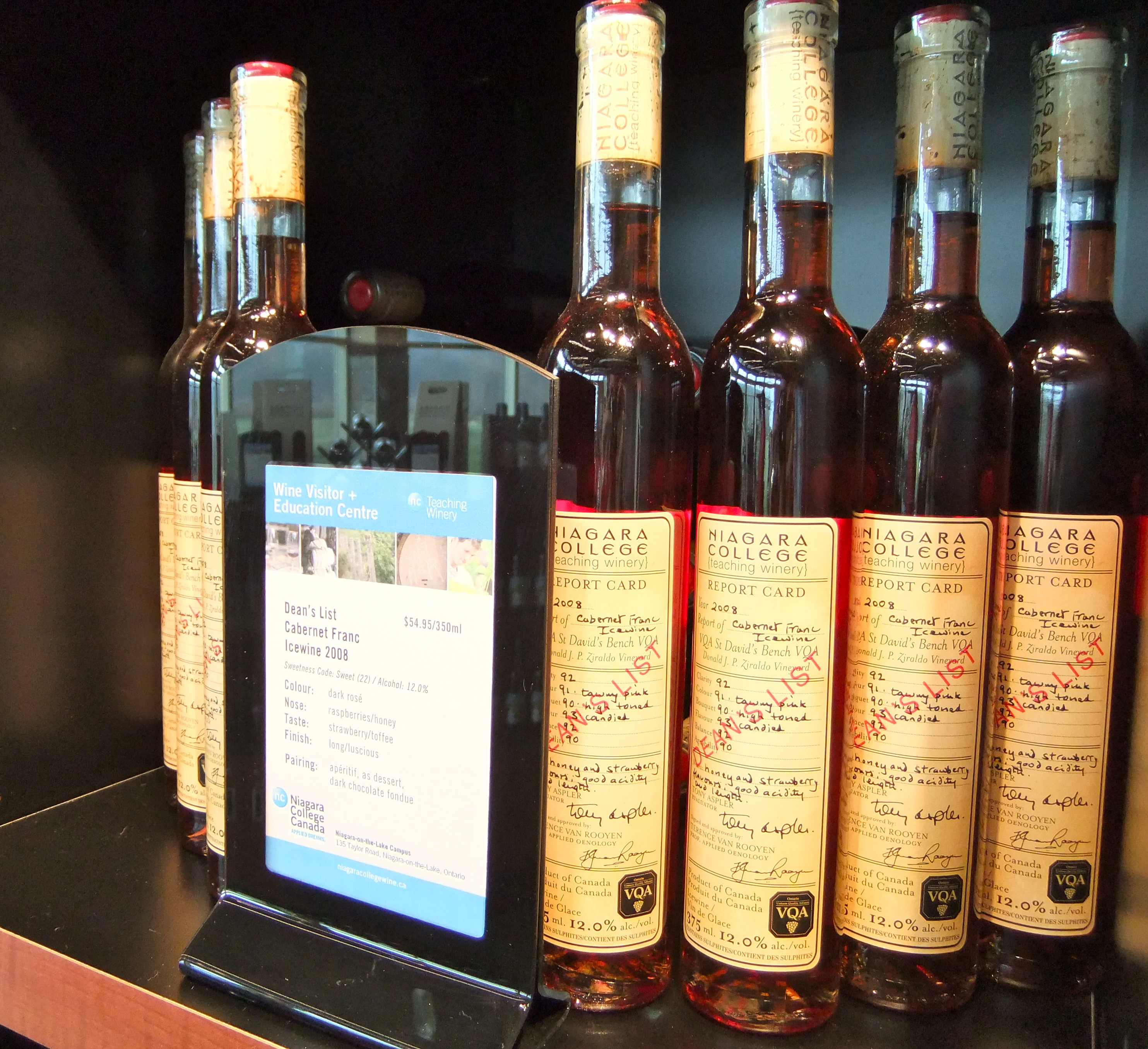 Cabernet France icewine with the VQA designation from Niagara wine reion.